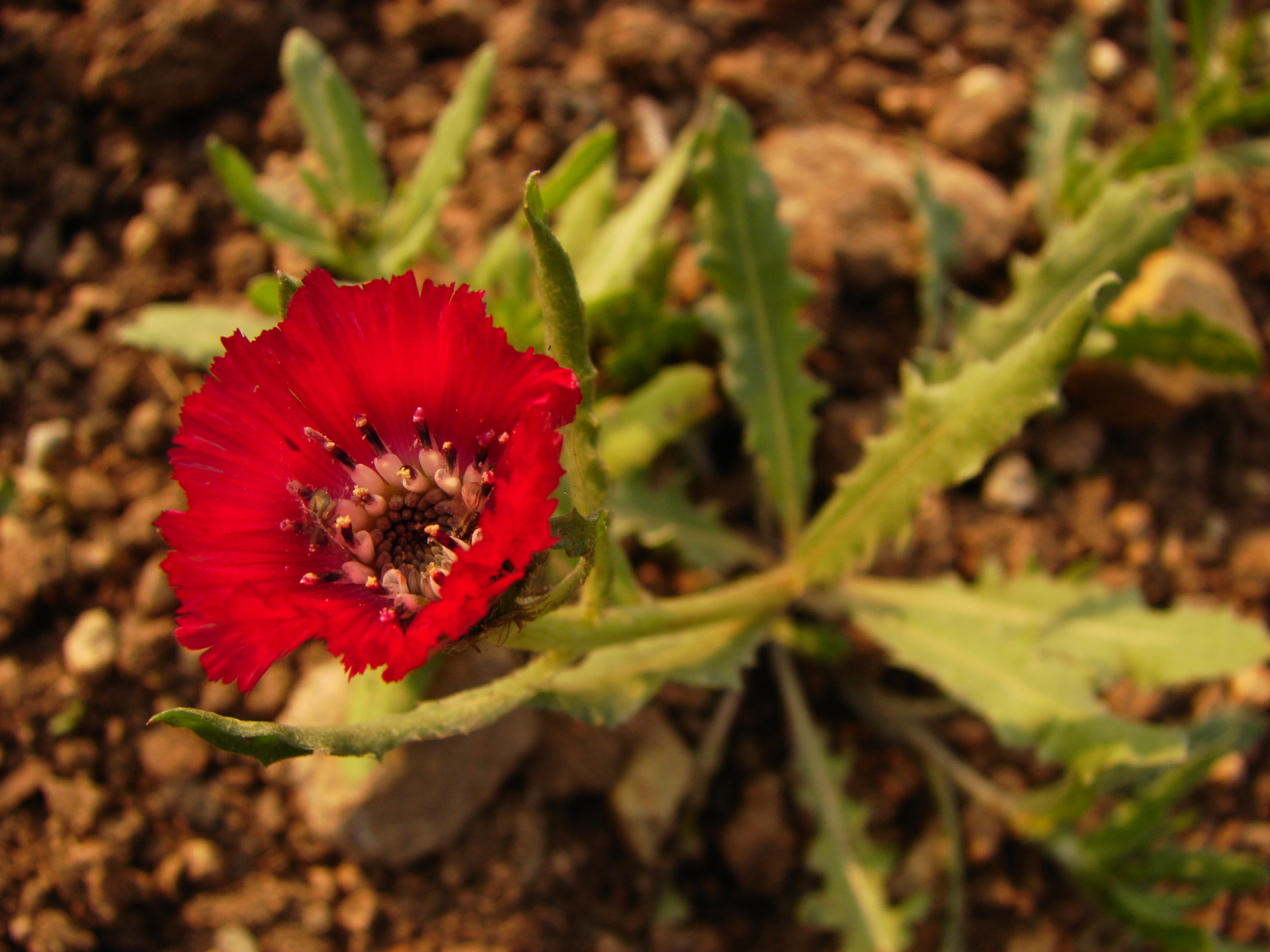 Centaurea tchihatcheffii. Local names : Yanardoner flower, Sevgi flower